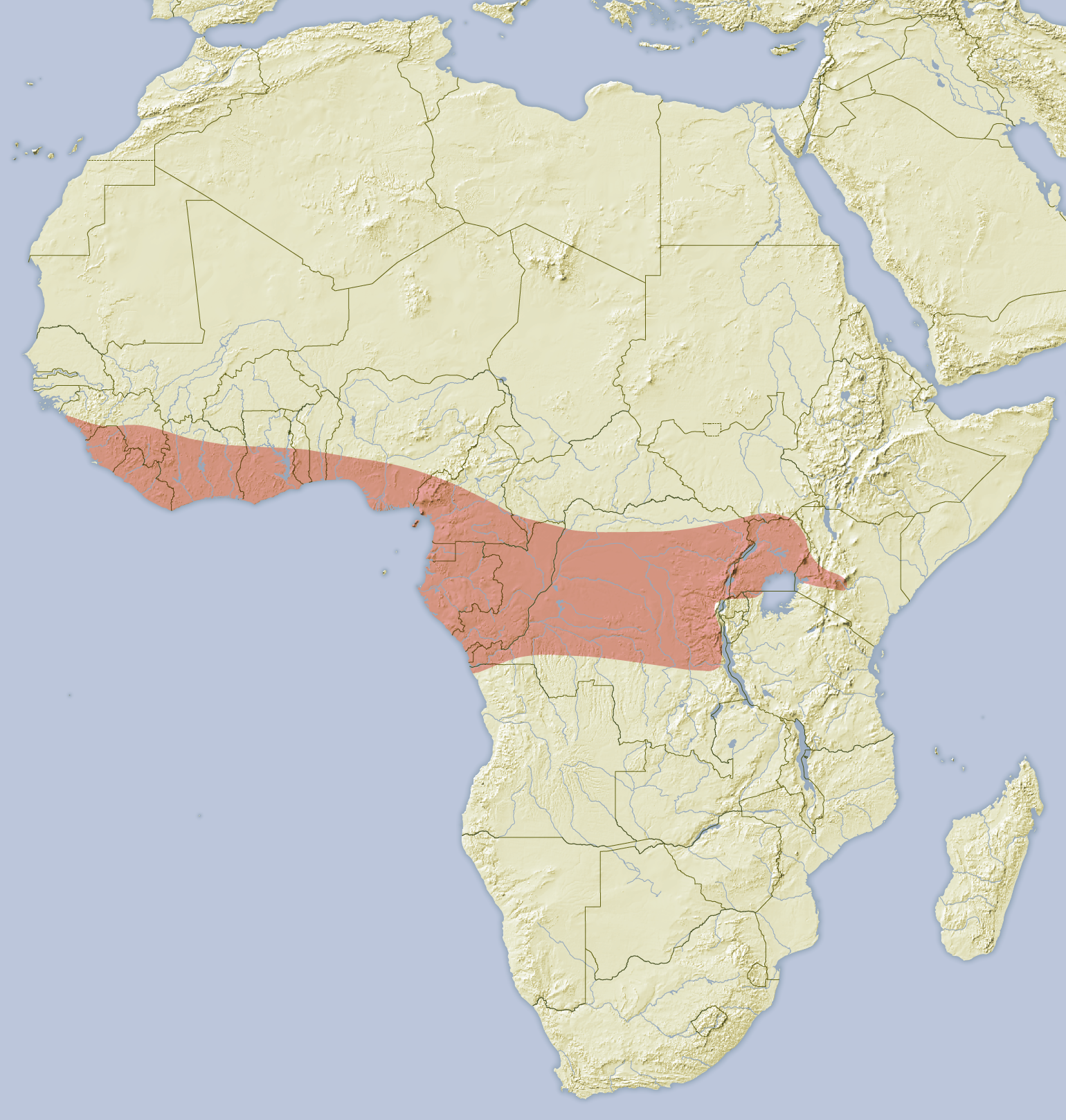 Distribution map of the African brush-tailed porcupine